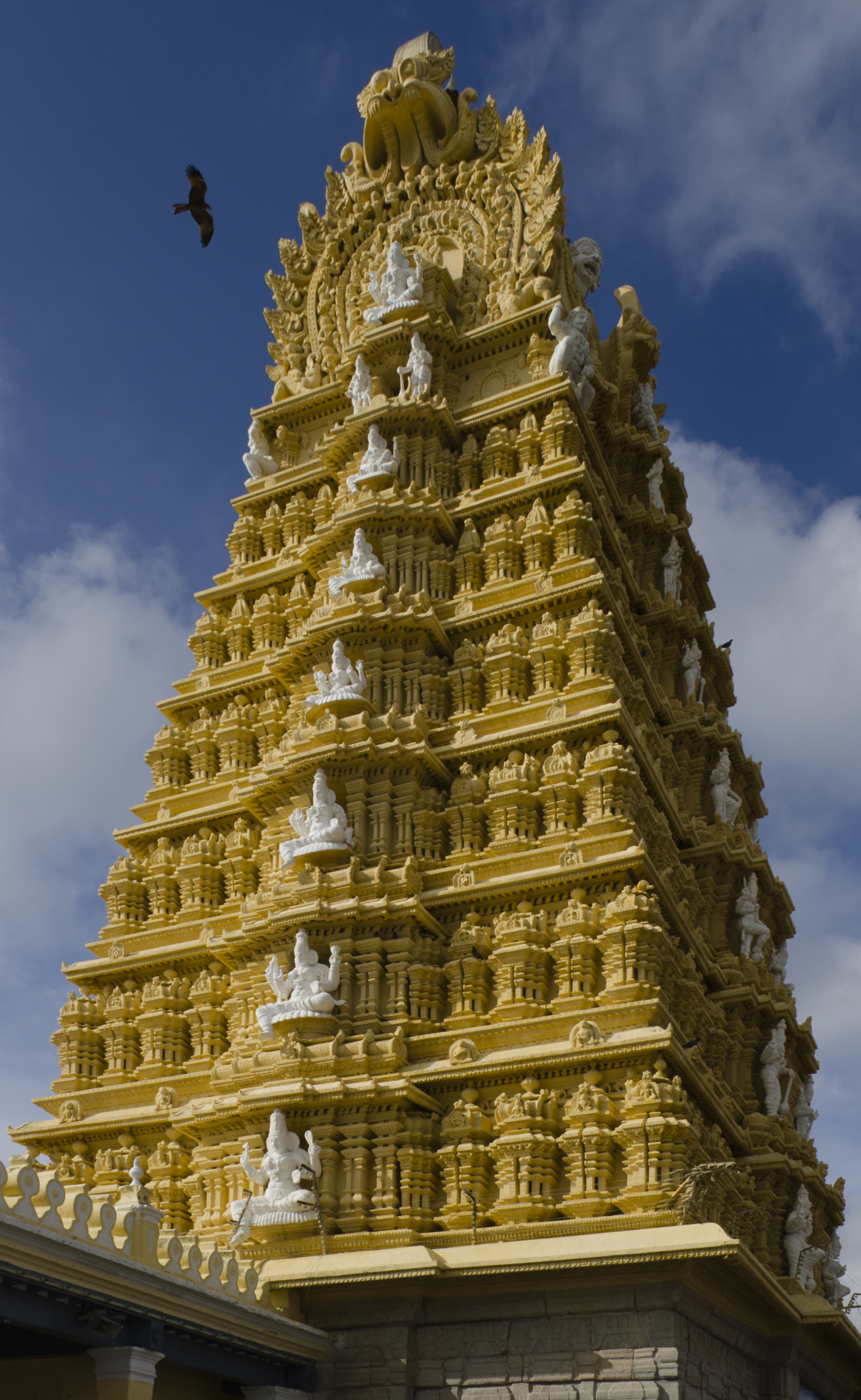 Sri Chamundeshwari Temple, Mysore, India